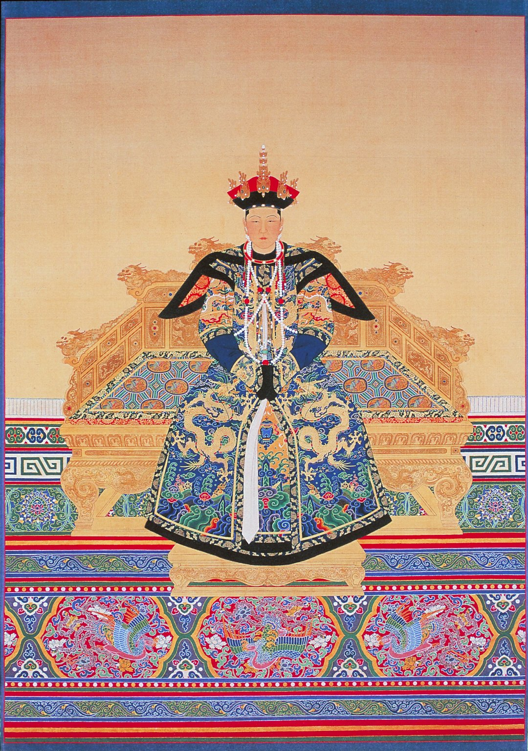 The Official Imperial Portrait of Qing Dynasty's Empress